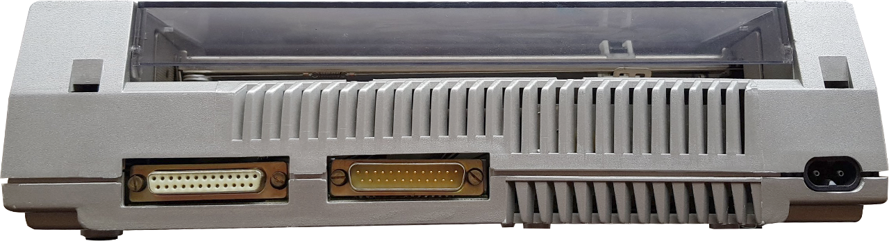 Back view of Polish made plotter Mera-Poltik MDG-1 from 1988. From left: serial port, centronics, power.